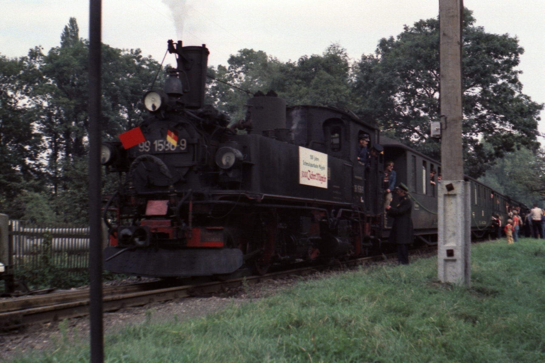 Narrow gauge steam locomotive 99 1586 in Altmügel at the 29th Sept. 1984